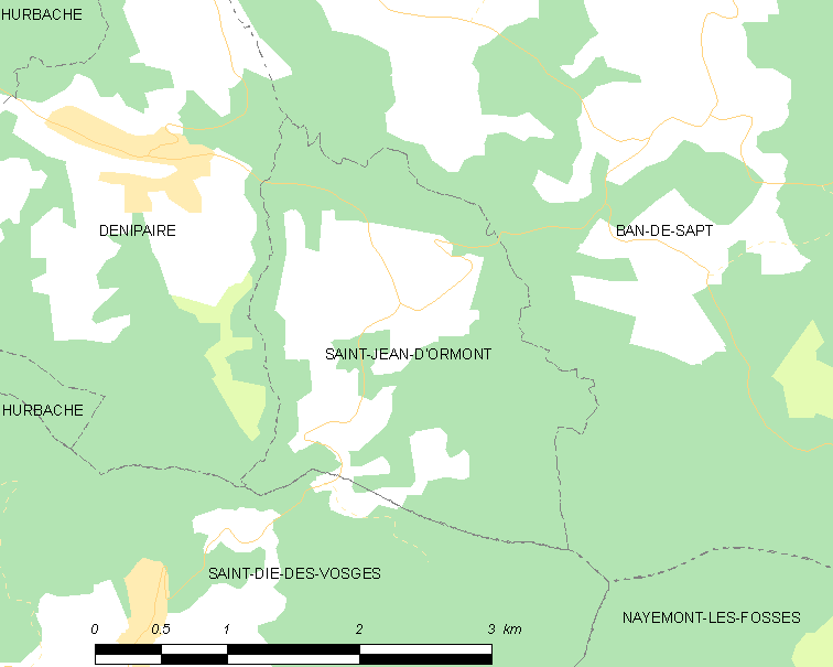 Map of French municipality Saint-Jean-d'Ormont